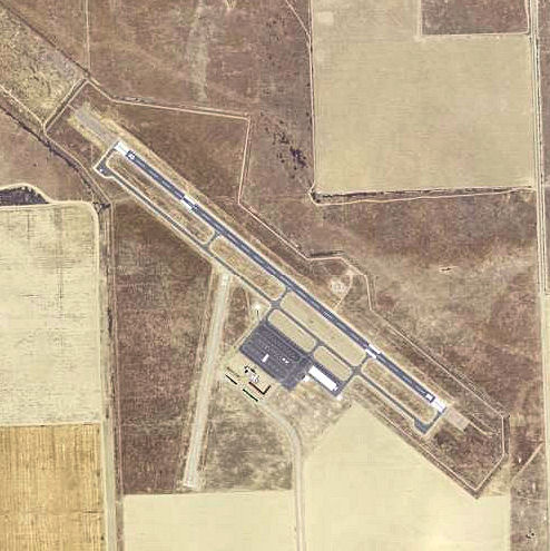 USGS digital orthophoto of New Coalinga Municipal Airport — in Coalinga, Fresno County, California.